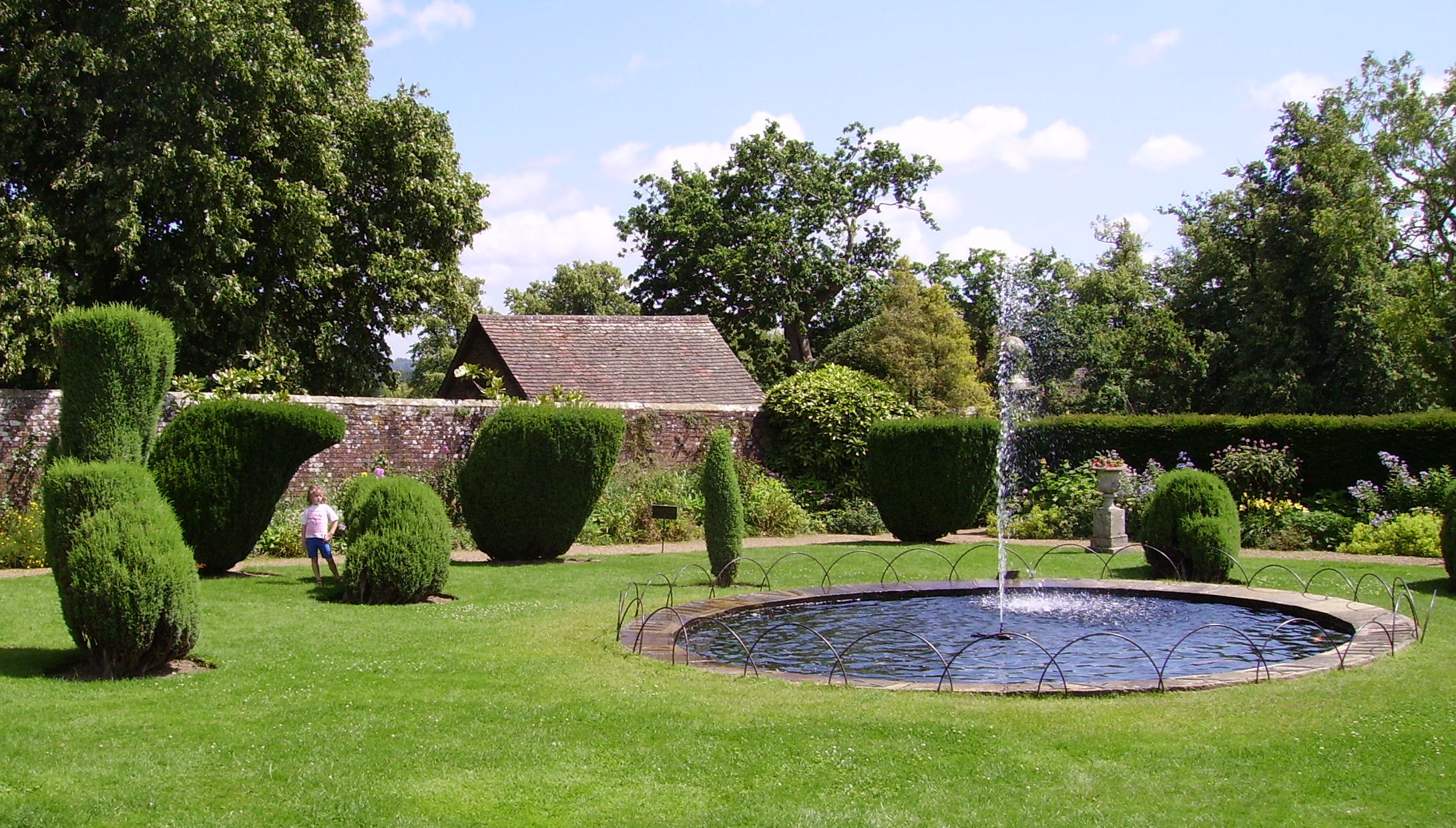 view of Groombridge Place near Groombridge, United Kingdom